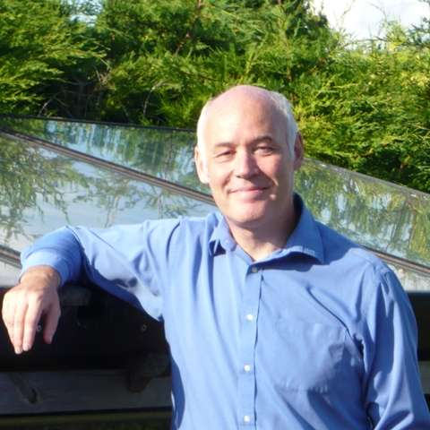 Philip Wolfe with solar panels